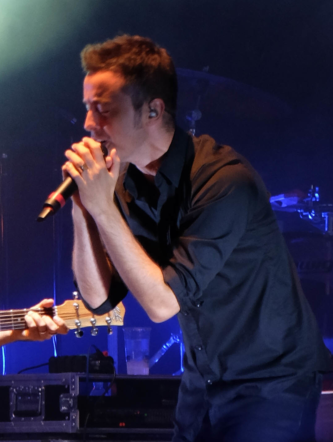 Rocking with Antonio Diodato.